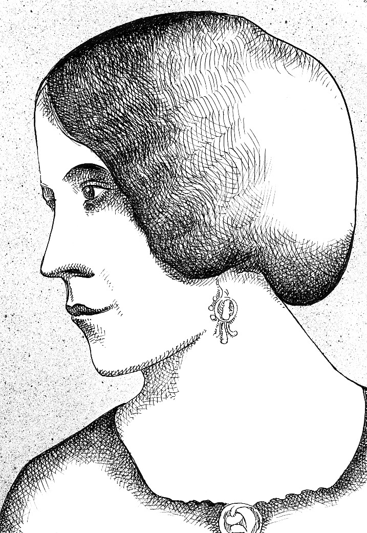 Ink drawing from Sándor Muhi graphic